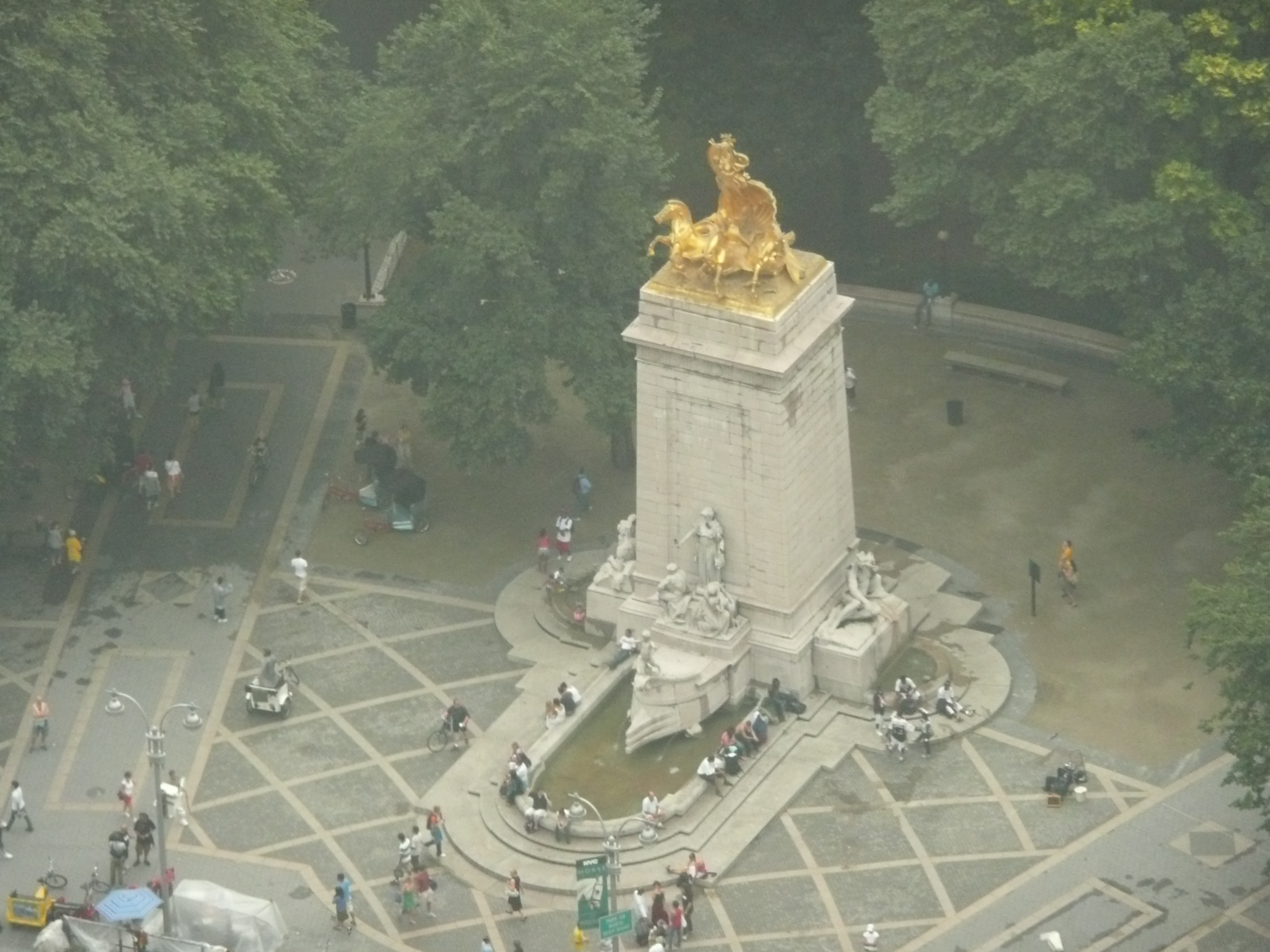 USS Maine Monument in New York City, NY, USA. Located at the SW corner of Central Park at the Merchant's Gate entrance to the park. It is at or near the confluence of Central Park South (59th Street), Central Park West (Eighth Avenue), Broadway, and Columbus Circle. Completed in 1913, it memorializes the American battleship USS Maine that blew up and sank in Havana's harbor in 1898 and precipitated the Spanish-American War the same year.